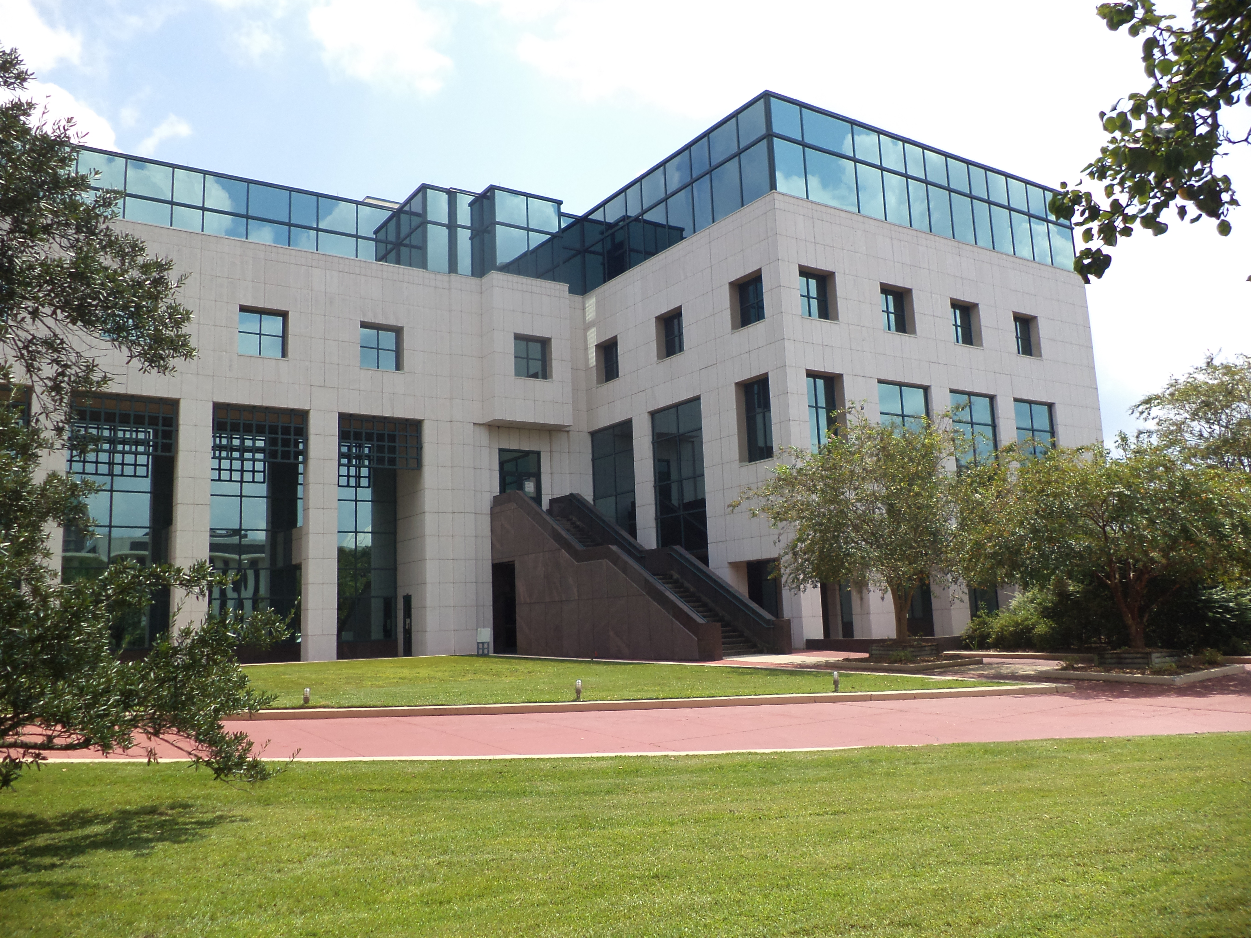 Leon County Courthouse (looking at SW corner), Tallahassee, Leon County, Florida